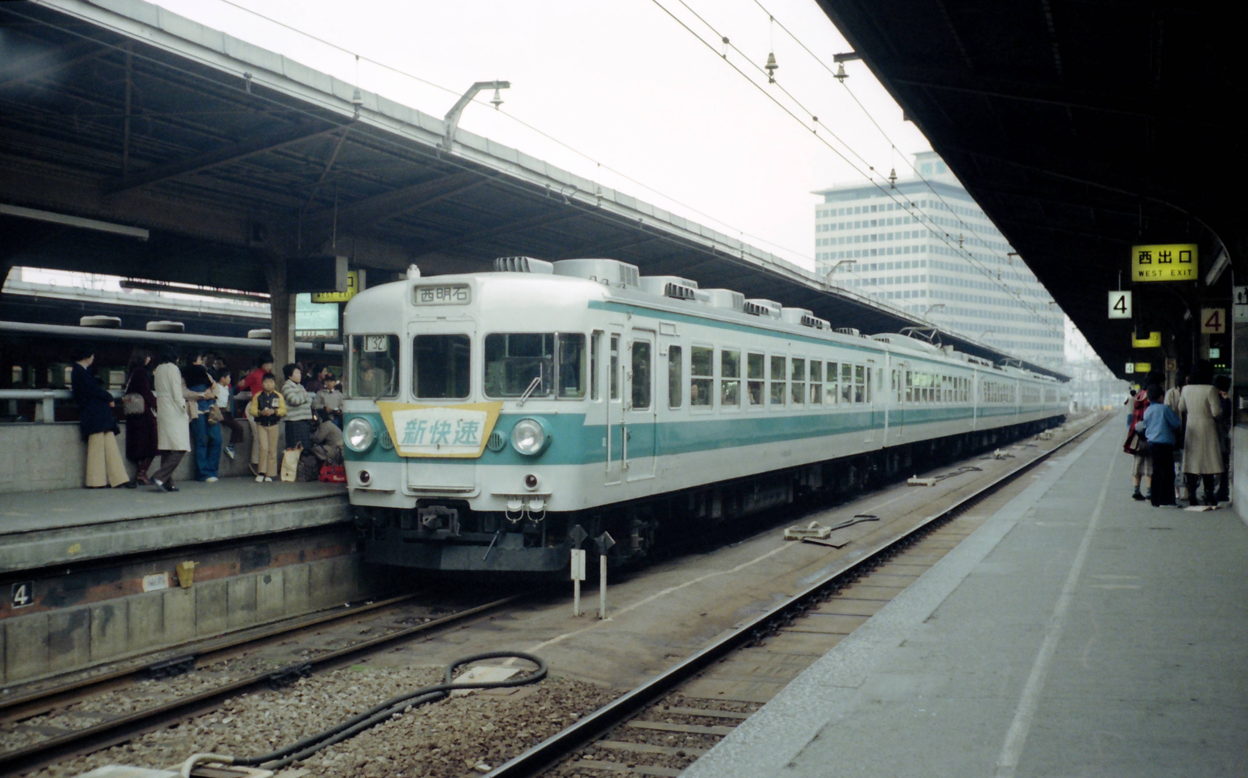 A JNR 153 series EMU at Osaka Station on a "Special Rapid" service